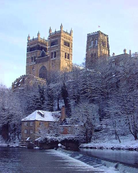 Photograph of Durham Cathedral by Robin Widdison.